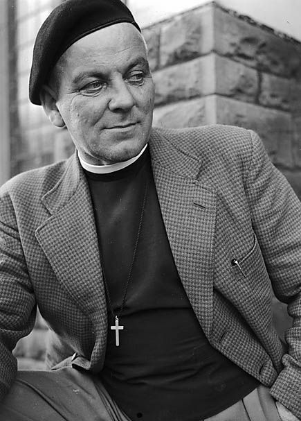 Teitl Cymraeg/Welsh title: Leon Atkins, offeiriad gwrthryfelgar Abertawe Ffotograffydd/Photographer: Geoff Charles (1909-2002) Dyddiad/Date: 15/6/1951 Cyfrwng/Medium: Negydd ffilm / Film negative Cyfeiriad/Reference: (gch01829) Rhif cofnod / Record no.: 3368185 Rhagor o wybodaeth am gasgliad Geoff Charles yn Llyfrgell Genedlaethol Cymru More information about the Geoff Charles Collection at the National Library of Wales Mae ffotograffau Geoff Charles hefyd yn rhan o Broject Europeana Libraries Geoff Charles' photographs also form part of the Europeana Libraries Project